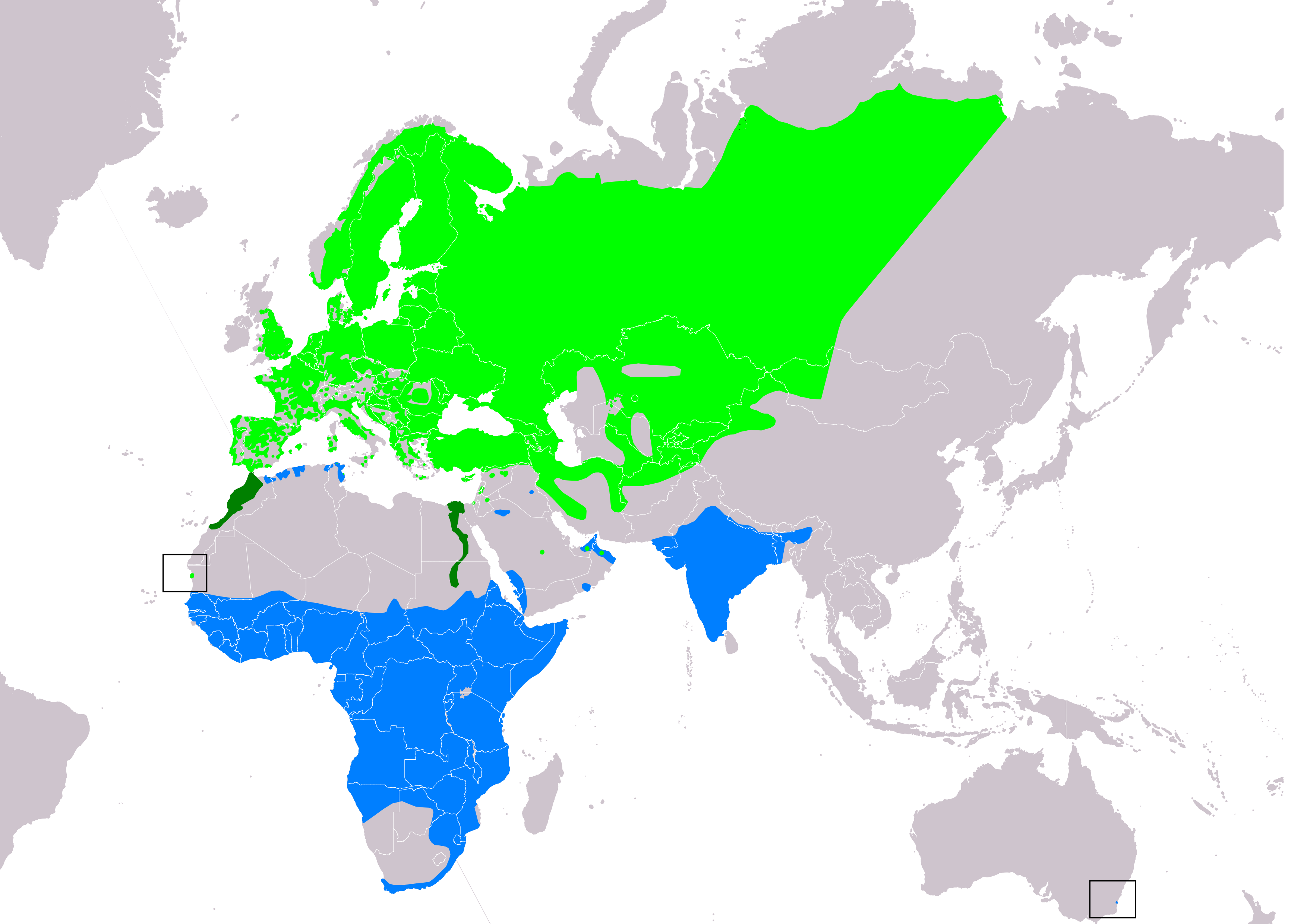 The distribution map of western yellow wagtail (Motacilla flava) according to IUCN version 2019.1; key: Legend: Extant, breeding (#00FF00), Extant, resident (#008000), Extant, non-breeding (#007FFF)